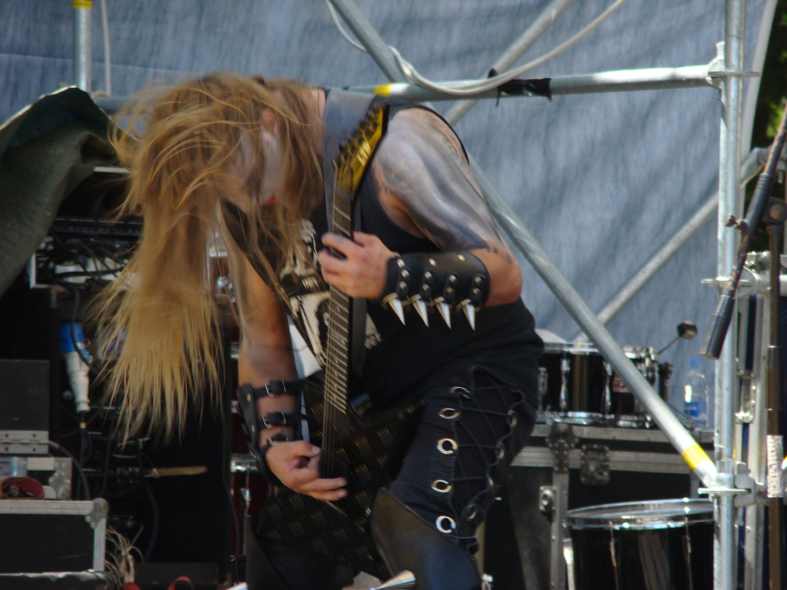 Behemoth live